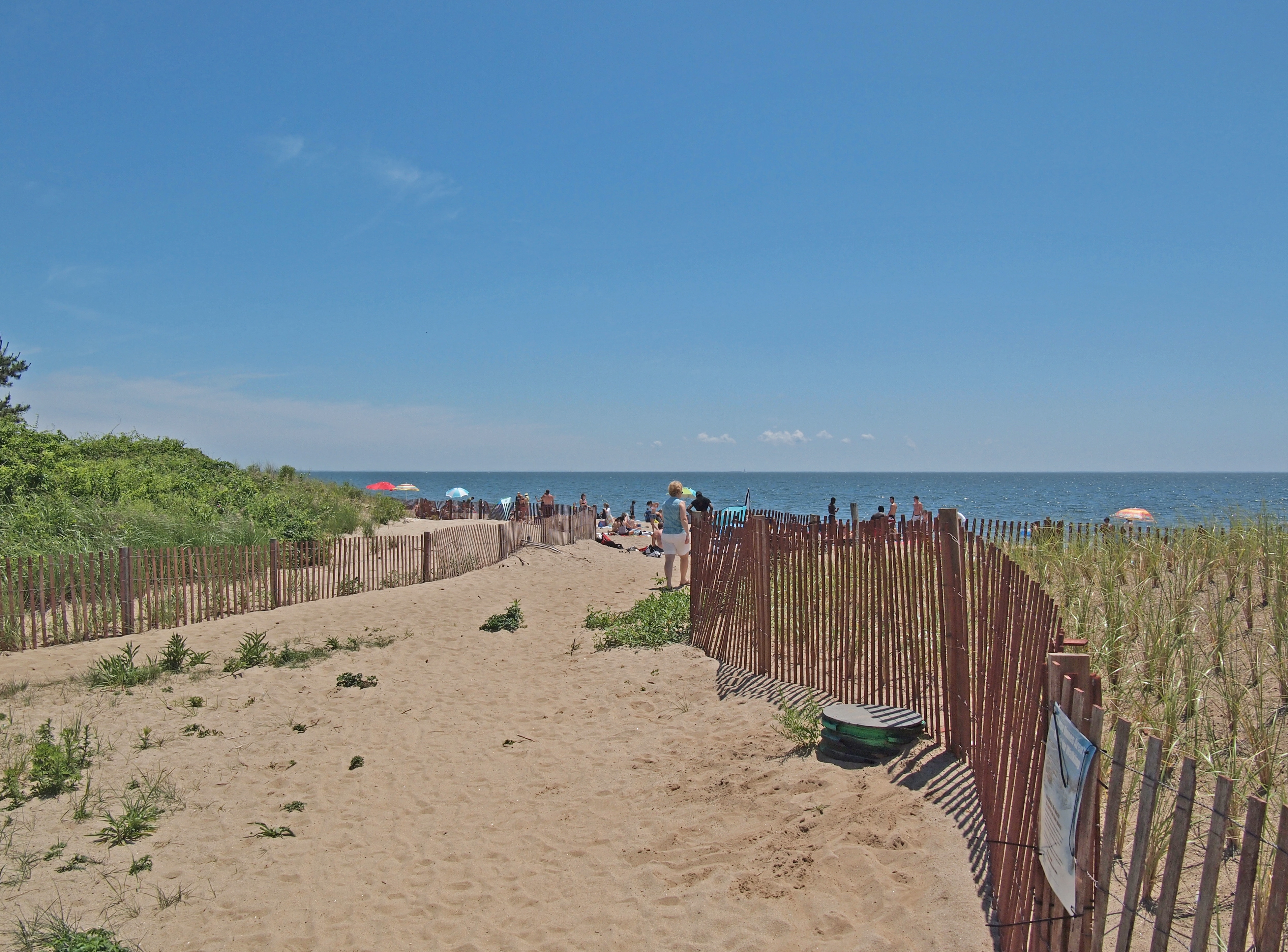 Hammonasset Beach State Park, Small sand dunes before the beach, Connecticut, USA.